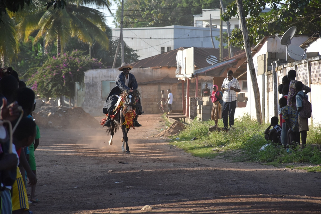 This is an image with the theme "Africa on the Move or Transport" from: Togo